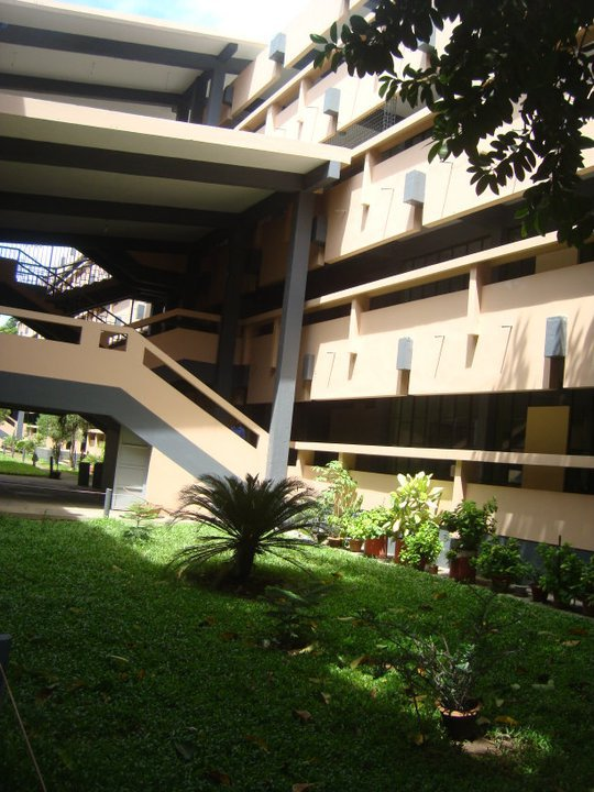 building (north)